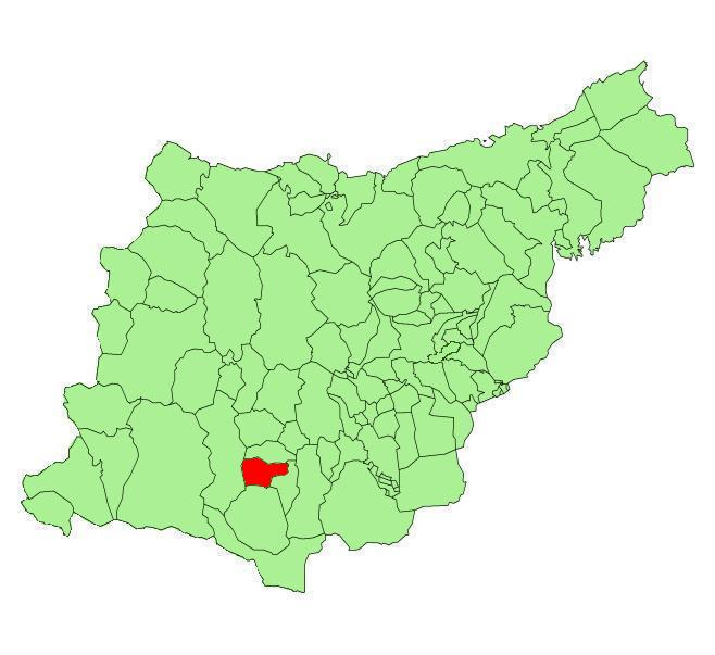 Zerain municipality in the province of Guipuzcoa